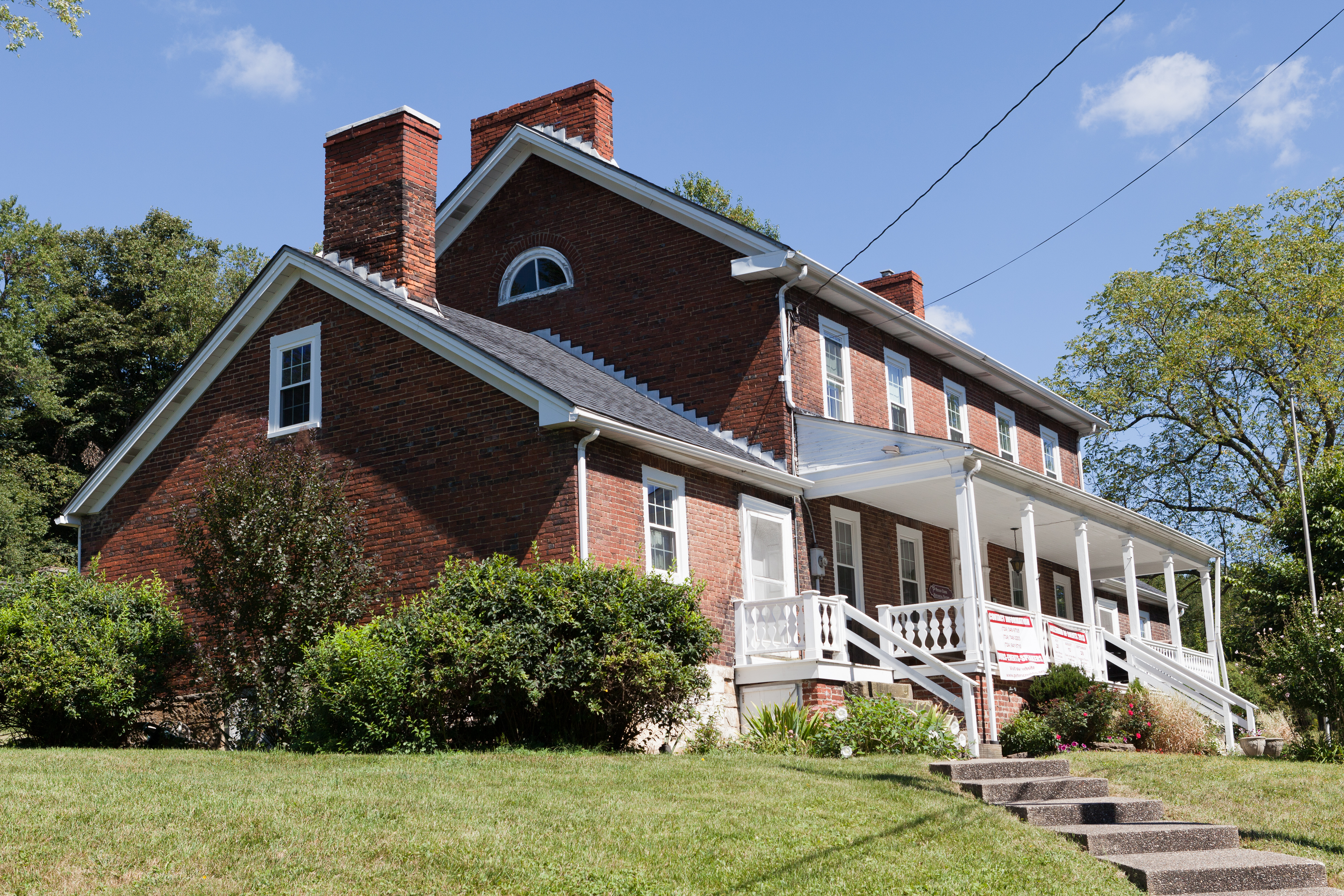 Enoch Wright House, 815 Venetia Road Peters Township